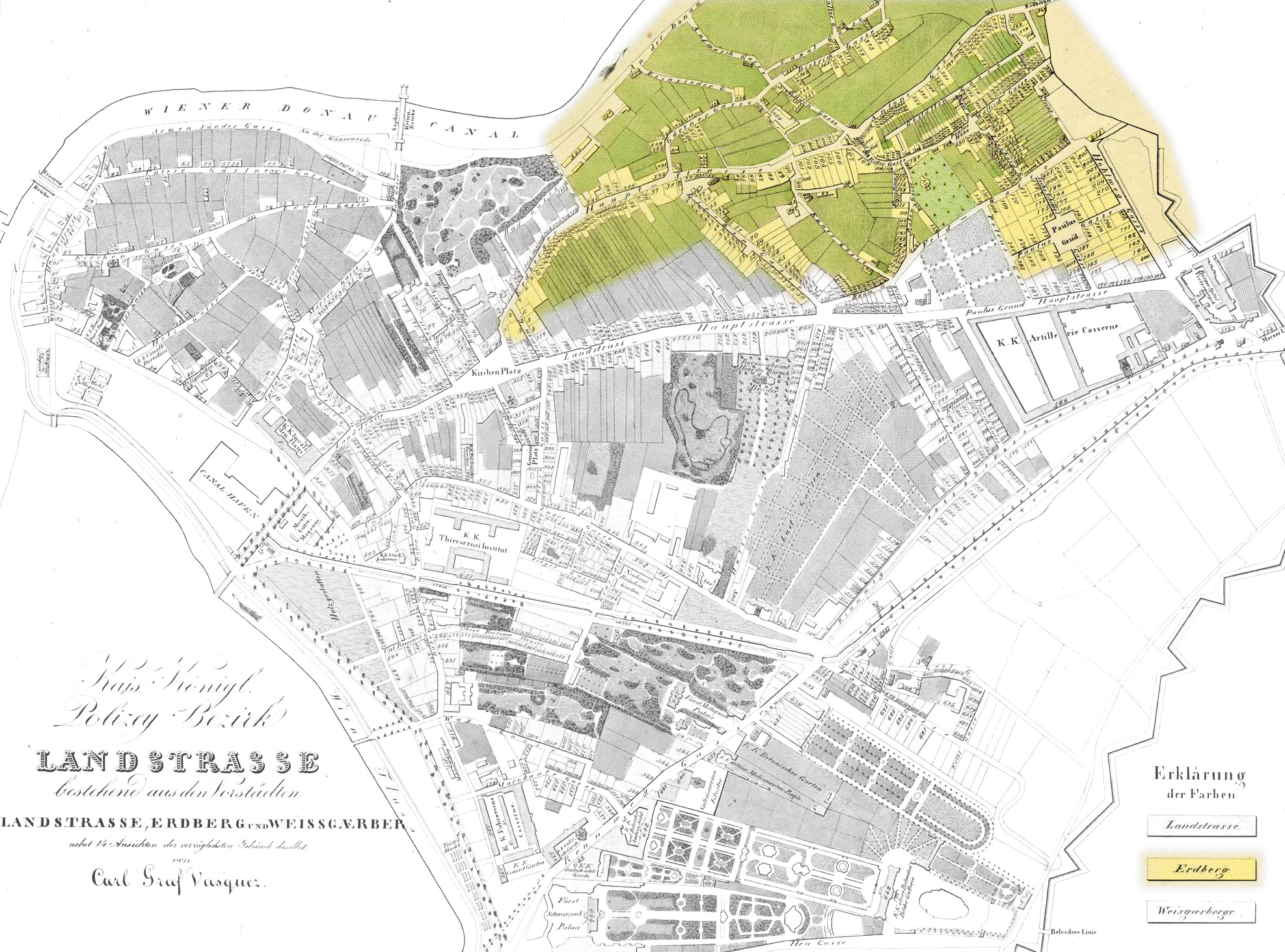 Map of Vienna / Erdberg, approx. 1830